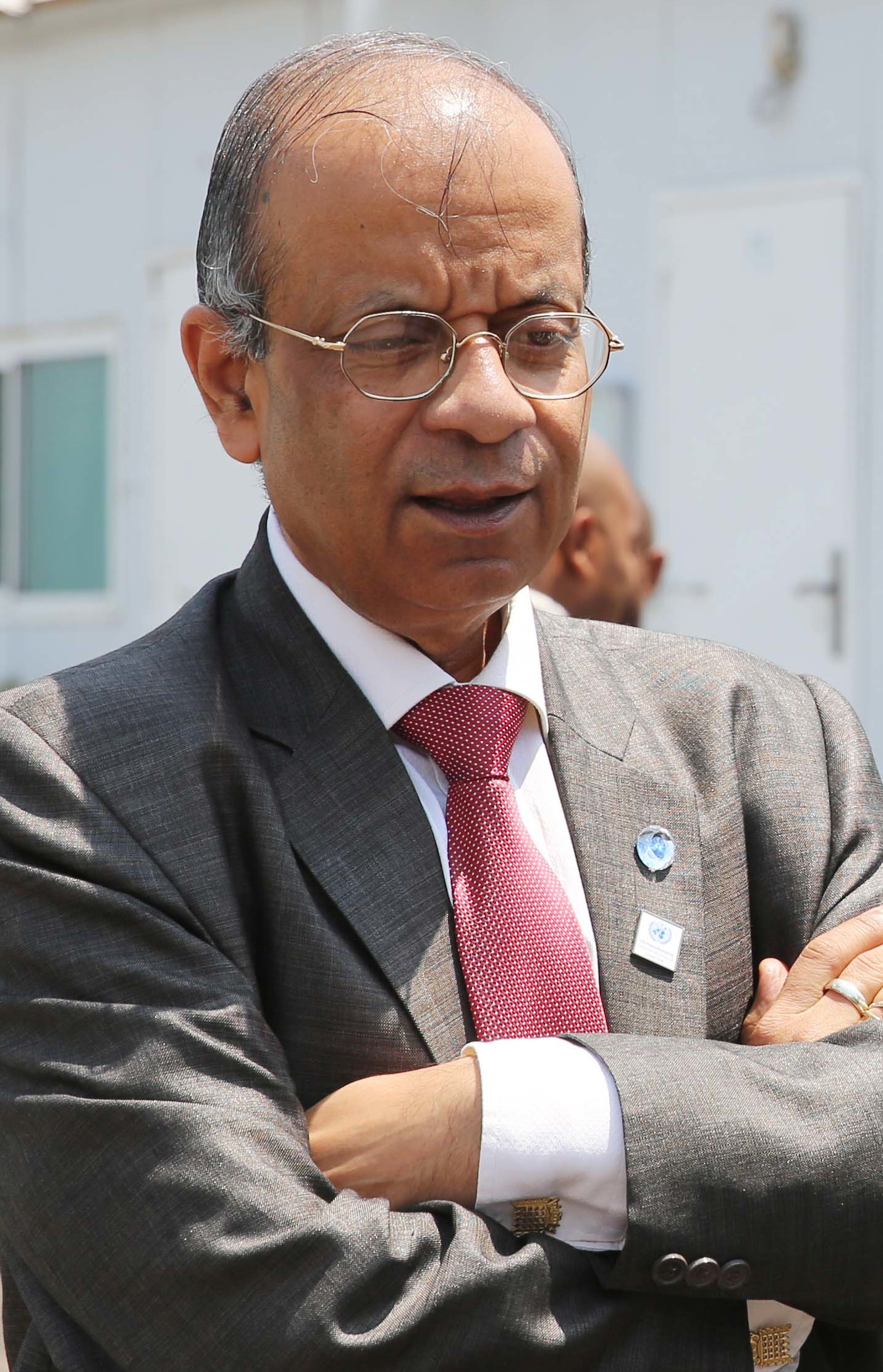 USG Khare meets with Deputy Governor of North Kivu Province at MONUSCO HQ in Goma.